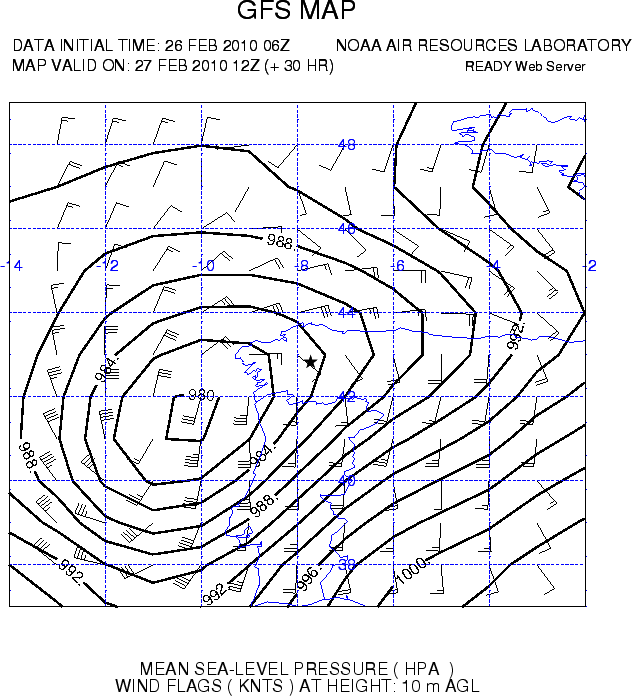 GFS metmap of Zynthia extratropical ciclone at 27 feb 2010, 1200 UTC (+30h forecast) offshore Galicia (Spain). The map shows sea level pressure and wind flags.